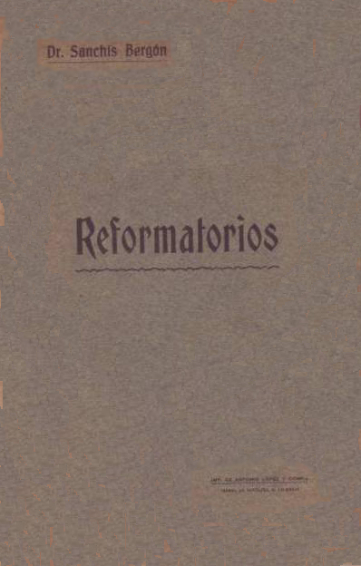 Book cover "Reformatorios" of José Sanchís Bergón. Valencia: Imp. Antonio López y Ca; 1917.